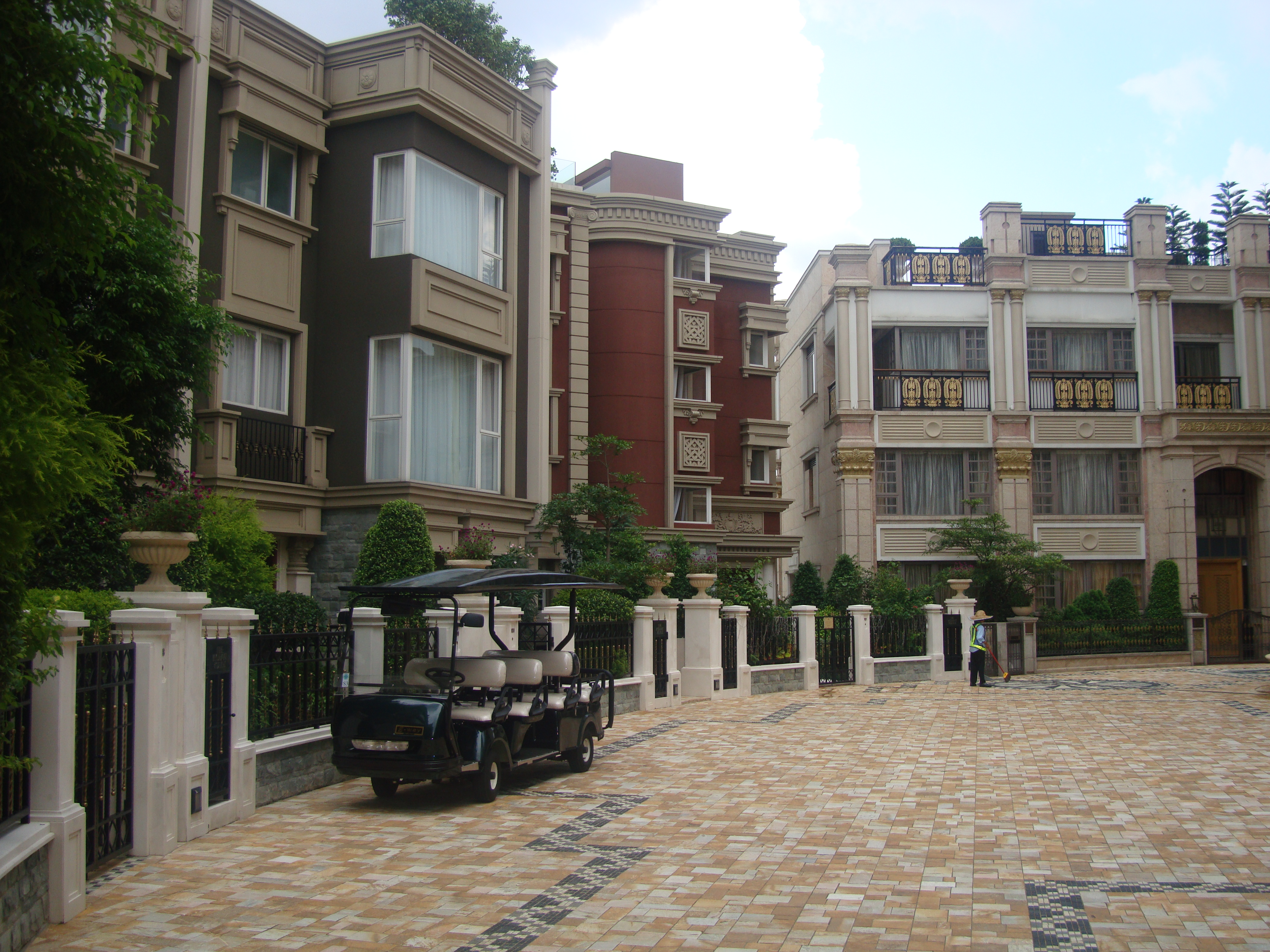 Detached and semi-detached houses on Boulevard du Palais in The Beverly Hills, a private townhouse development in Tai Po, Hong Kong.